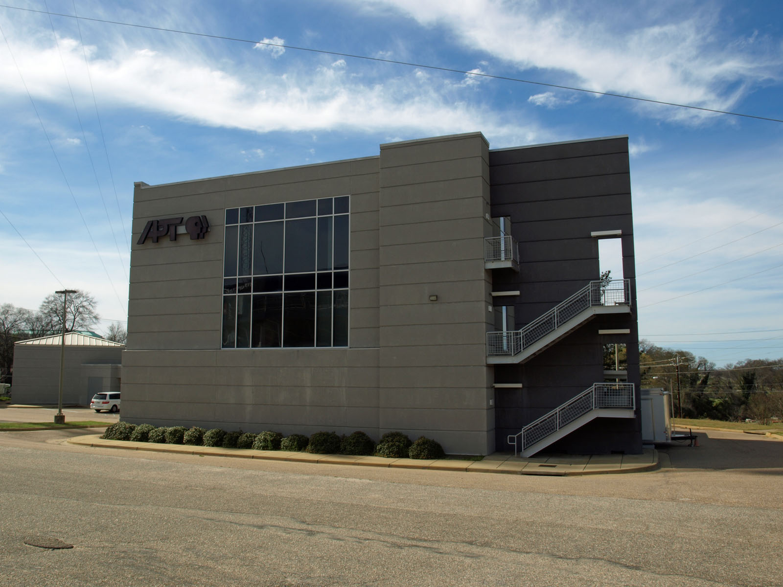 The Alabama Public Television headquarters in Montgomery, Alabama.